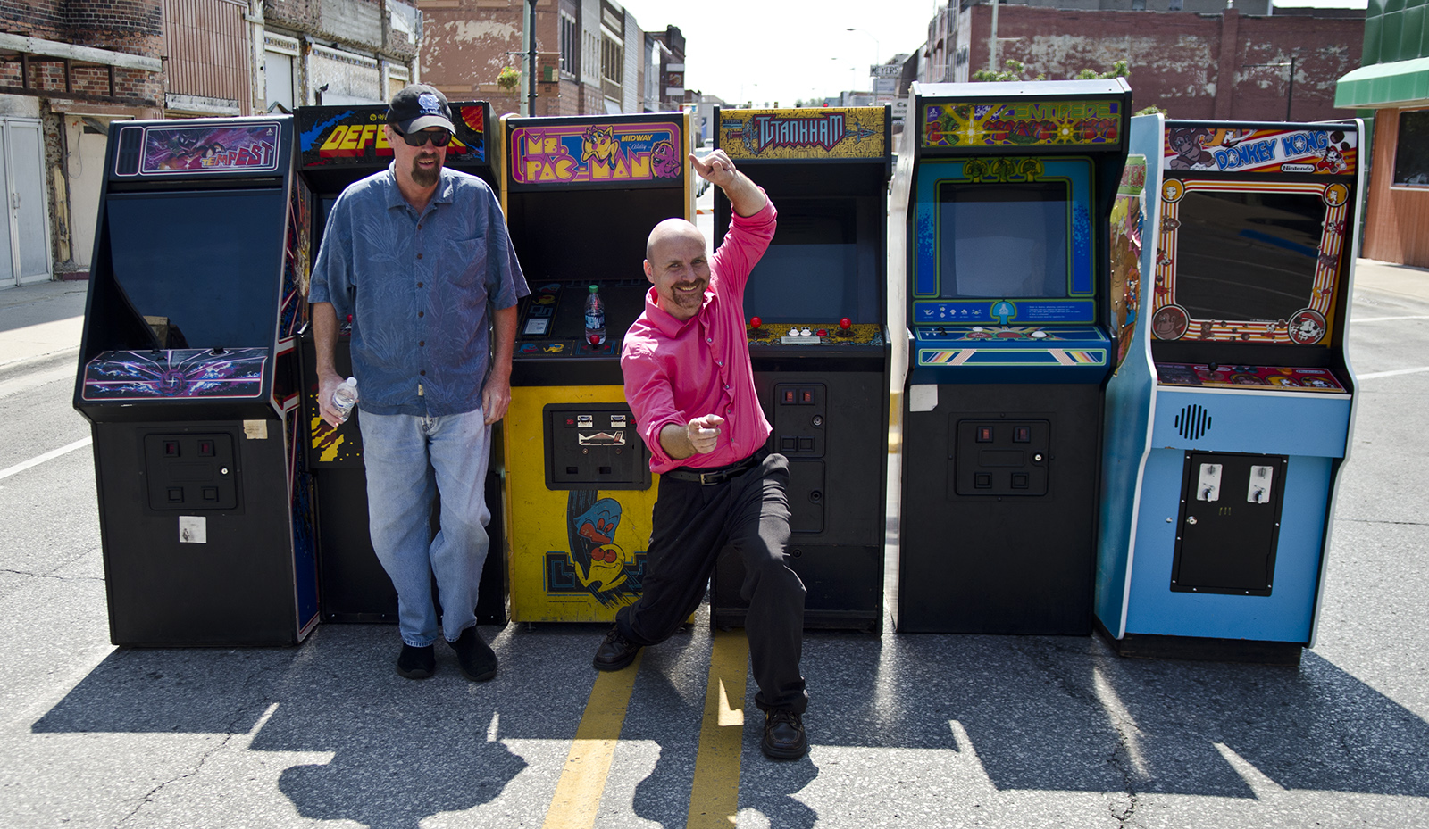 Mark Hoff and Joel West in front of the original Twin Galaxies Arcade, Ottumwa Iowa